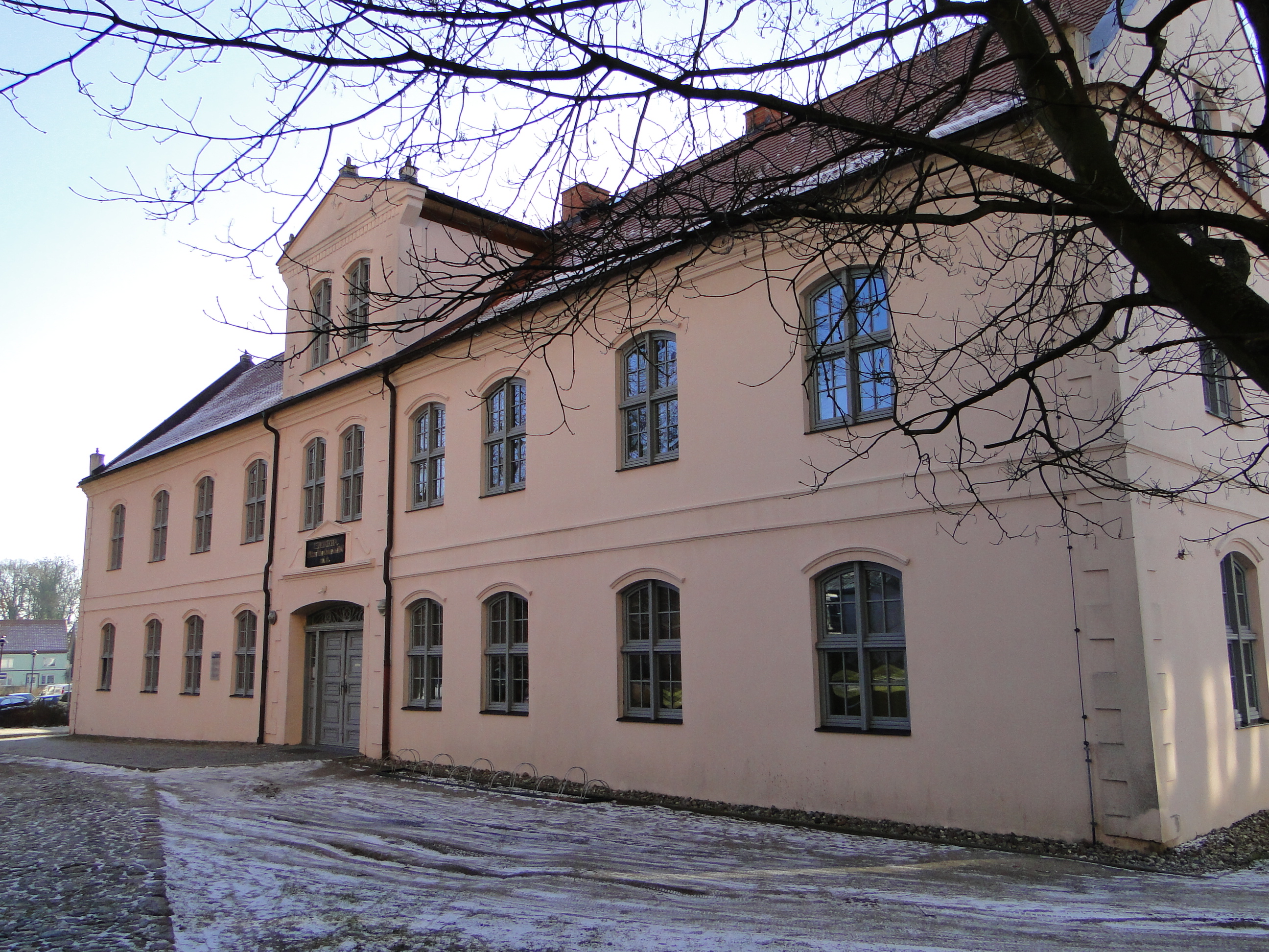 Old Grammar School, Building next to St. Marien in Friedland, district Mecklenburg-Strelitz, Mecklenburg-Vorpommern, Germany